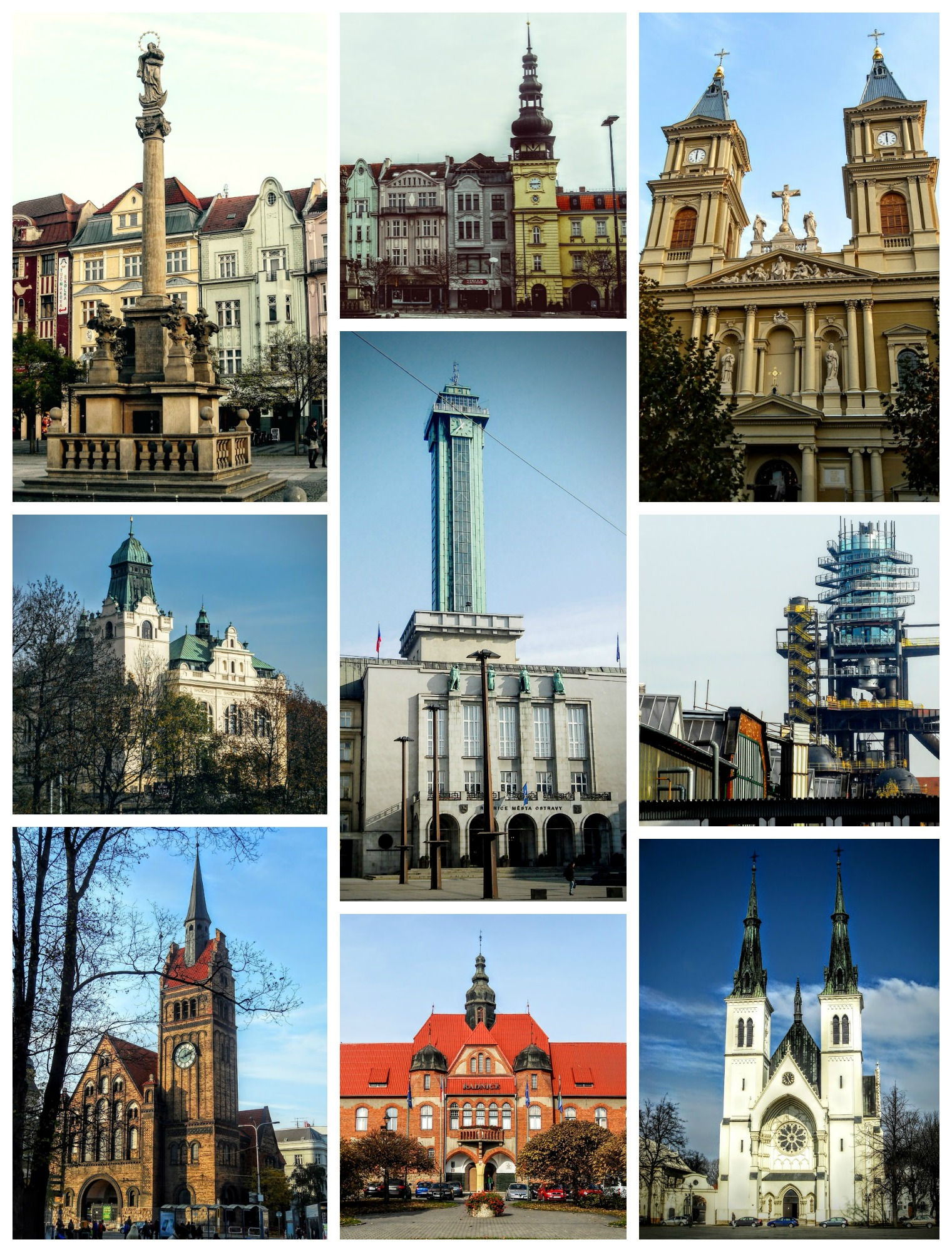 Ostrava